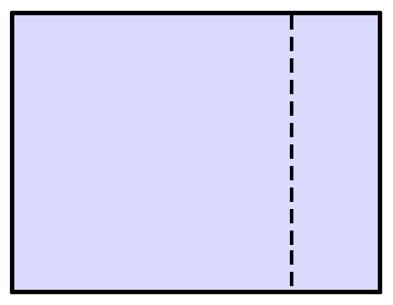 A rectangle showing one of two possible rabatment lines as a dotted line.